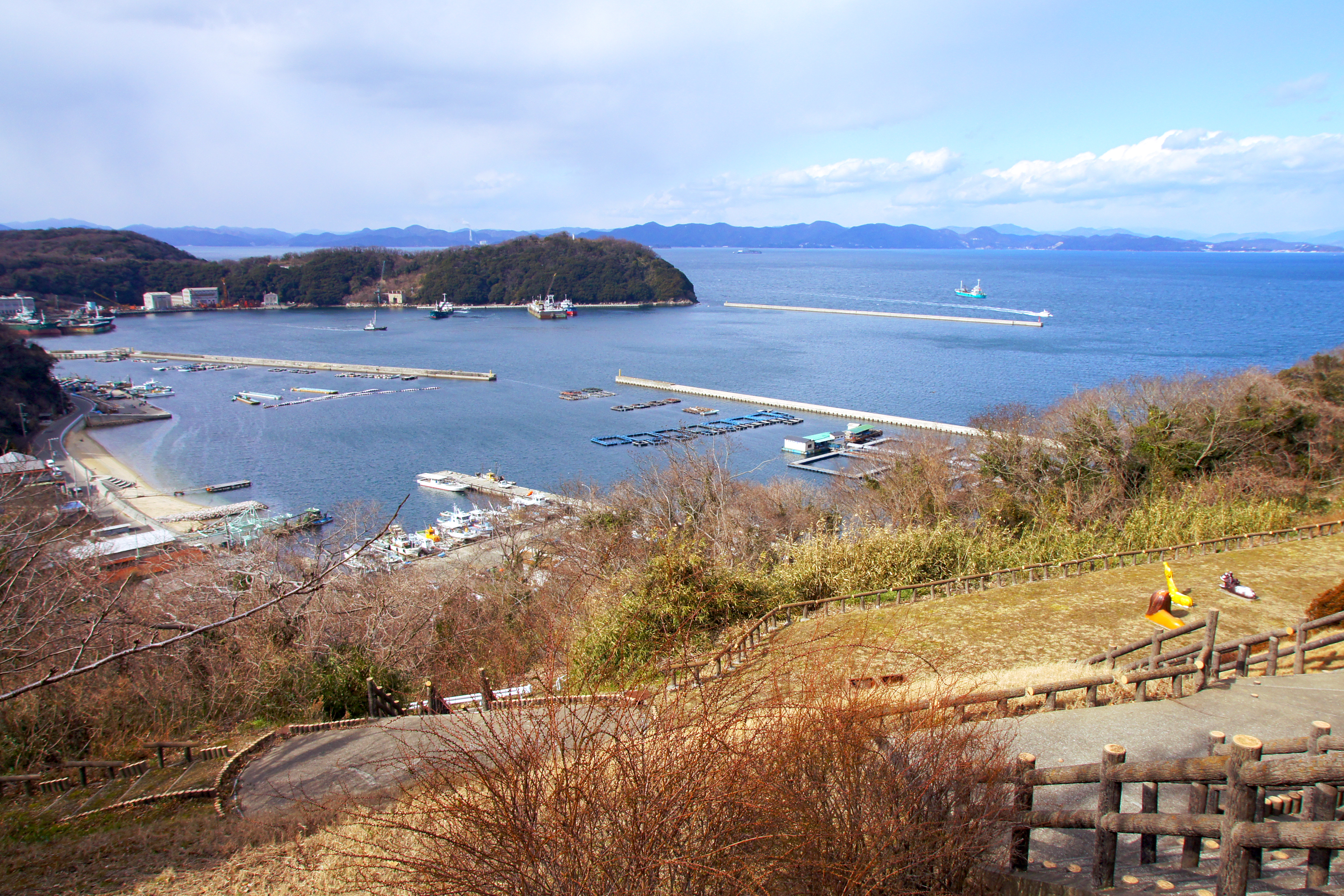 Kankan-chobo is one of the Ten Views of Ieshima Islands in Ieshima Island, Himeji, Hyogo prefecture, Japan.